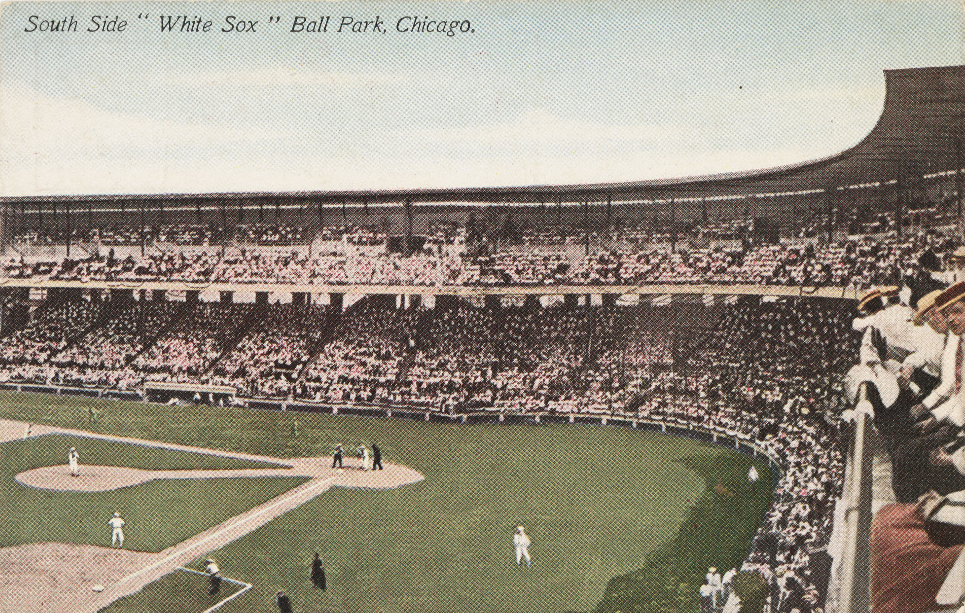 From the University of Maryland Digital Collections website: "Crowds fill the stands at the South Side baseball park, home of the White Sox, as they watch a baseball game, Chicago, Illinois, circa 1907-1913. Postcard number: 506."